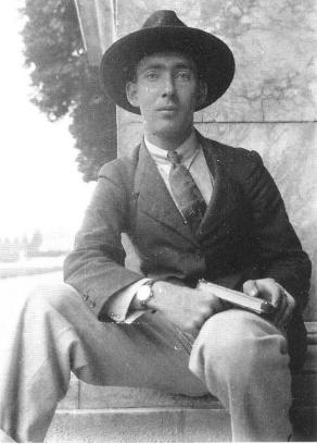 Photograph of Robert Hall, Baron Roberthall in his student days at Versailles